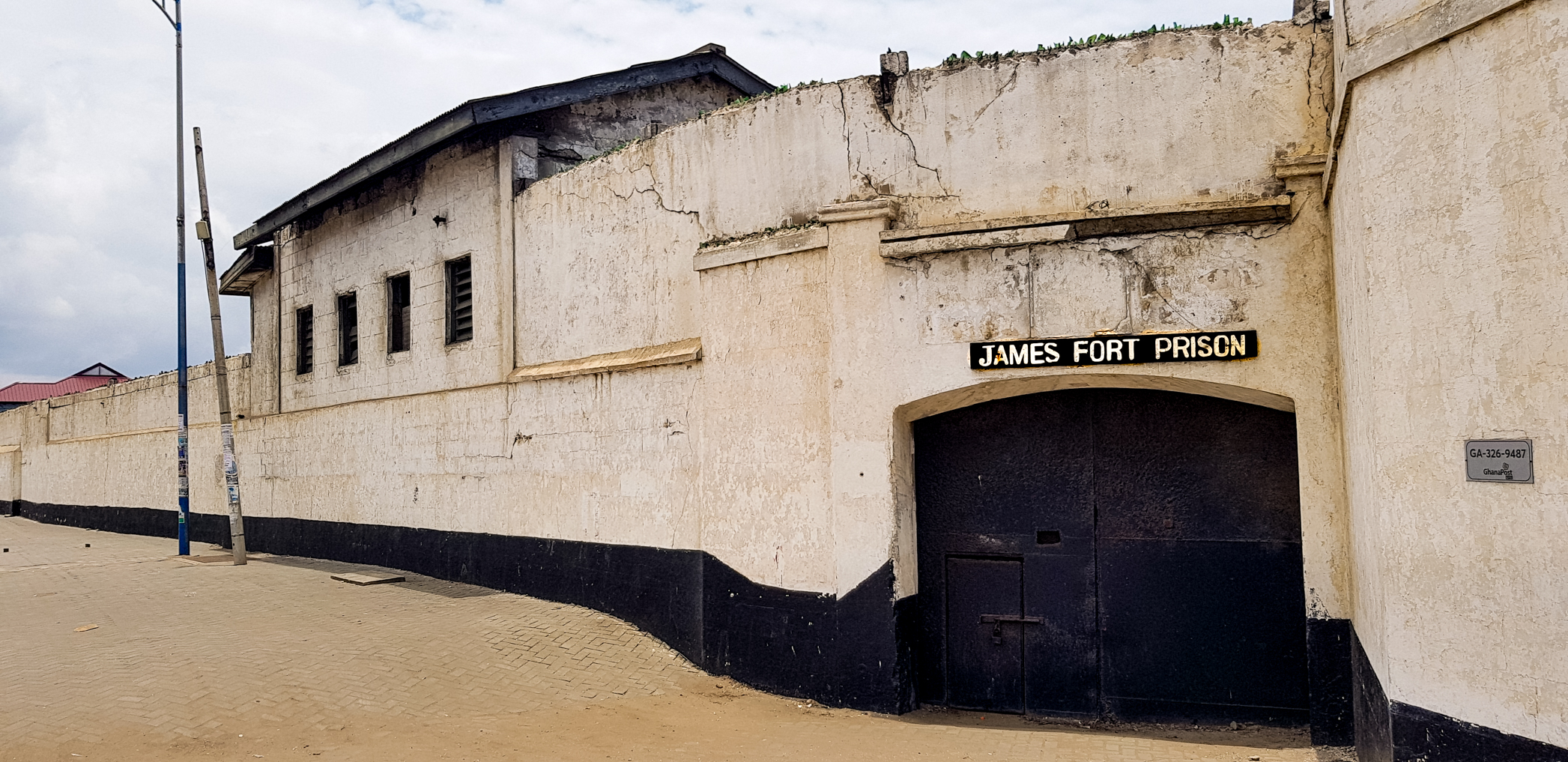 James Fort, Accra. Built by the British in 1673, this fort served as a prison until 2008.